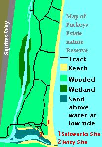 Map of Puckeys Estate nature reserve